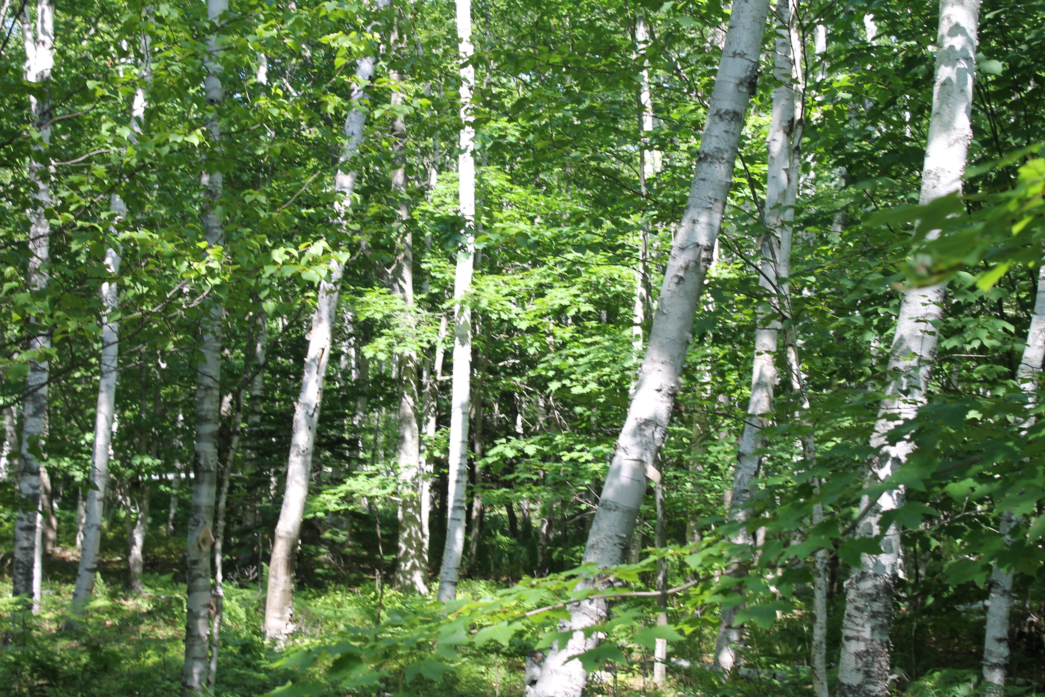 I took photo with Canon camera of white birch at Acadia National Park, ME.